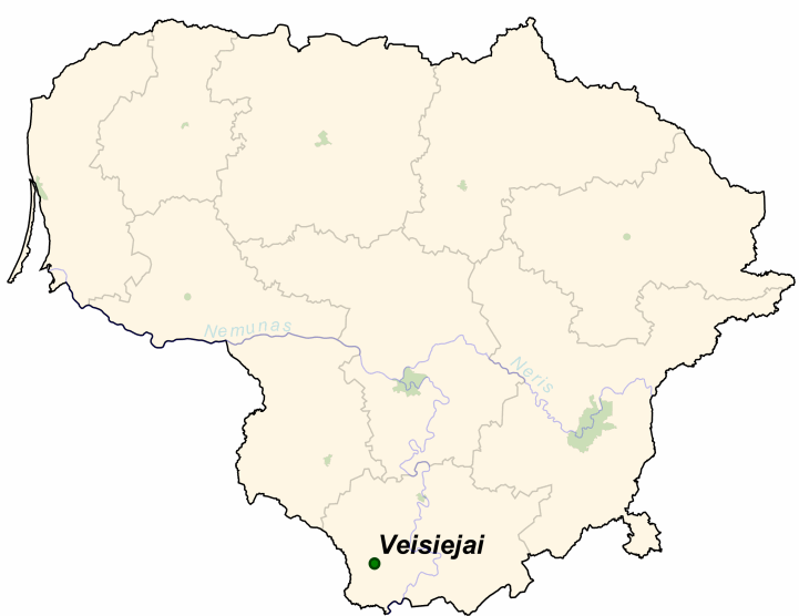 Veisiejai on the map of Lithuania